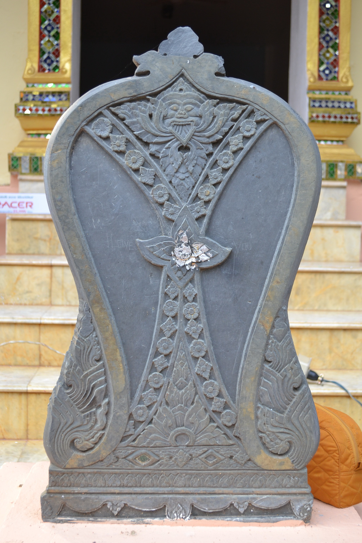 Wat Wang Mu Mueang Uttaradit, Uttaradit Province, Thailand. on March 17, 2009.